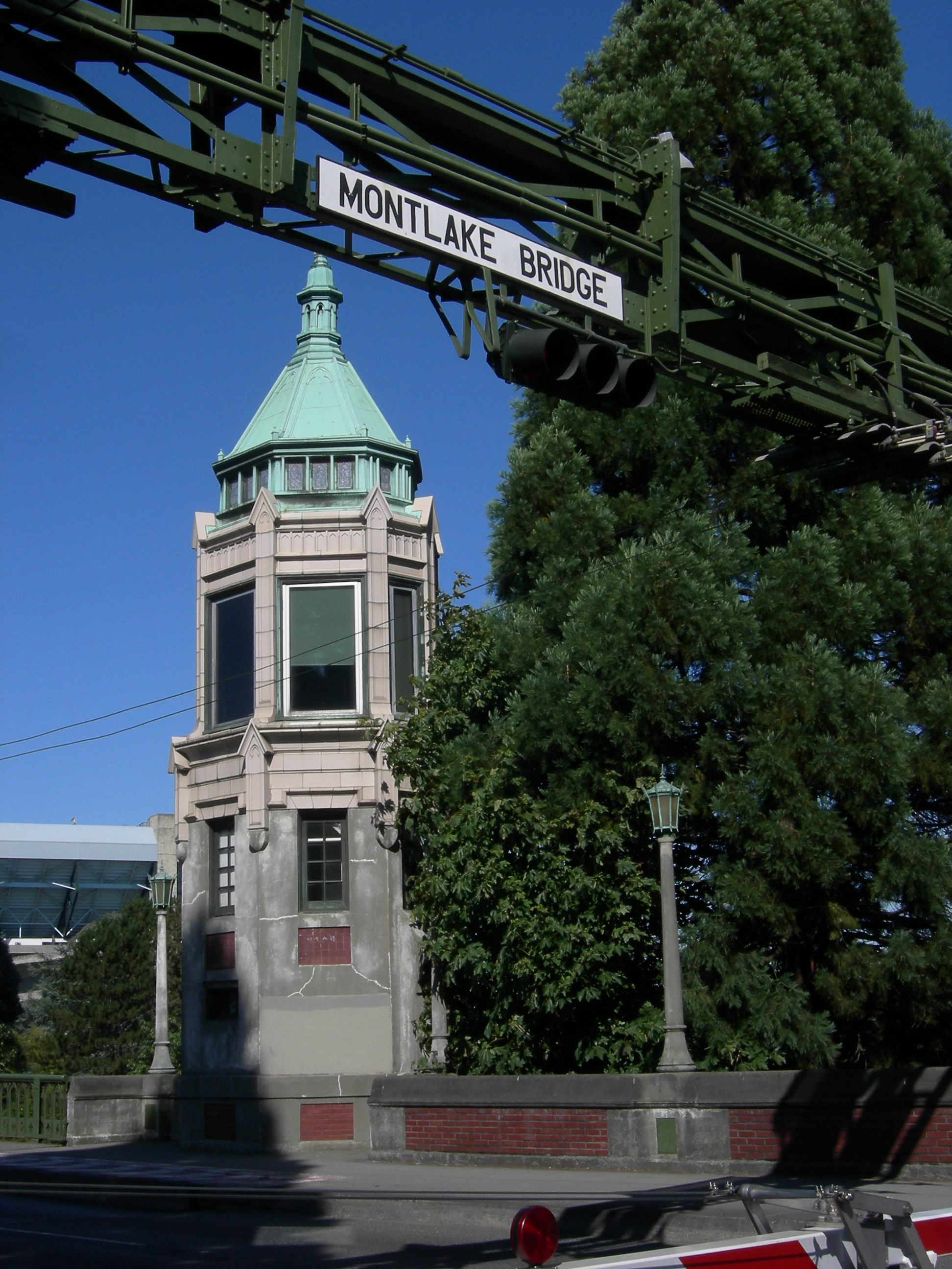 South attendant's tower of Montlake Bridge, Seattle, Washington. The bridge is listed in the National Register of Historic Places.